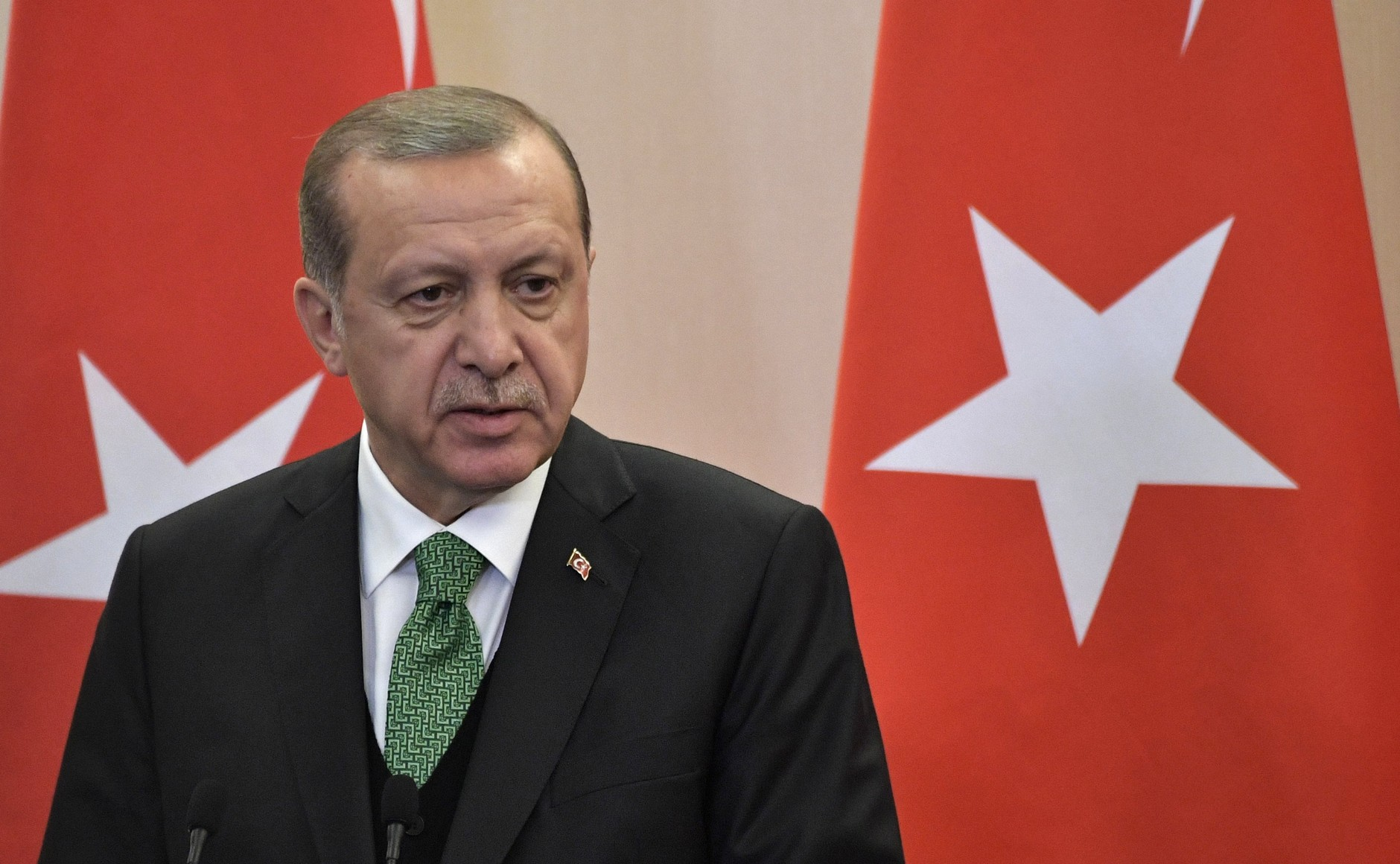 Vladimir Putin met with President of Turkey Recep Tayyip Erdogan in Sochi to discuss bilateral relations and current issues on the international agenda.